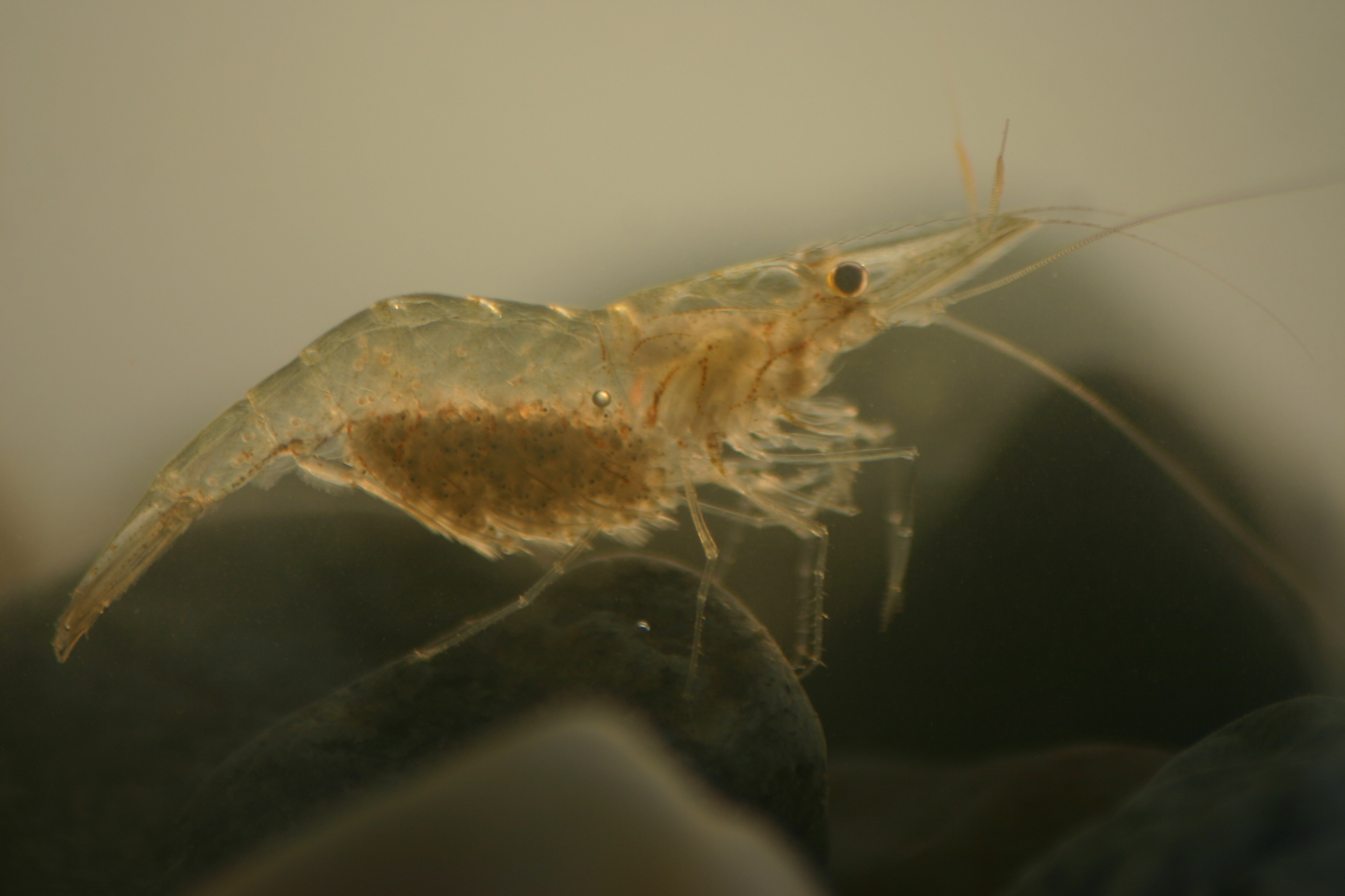 Grass Shrimp Palaemonetes pugio with young, Chessapeake Bay 2006 by Brian Gratwicke